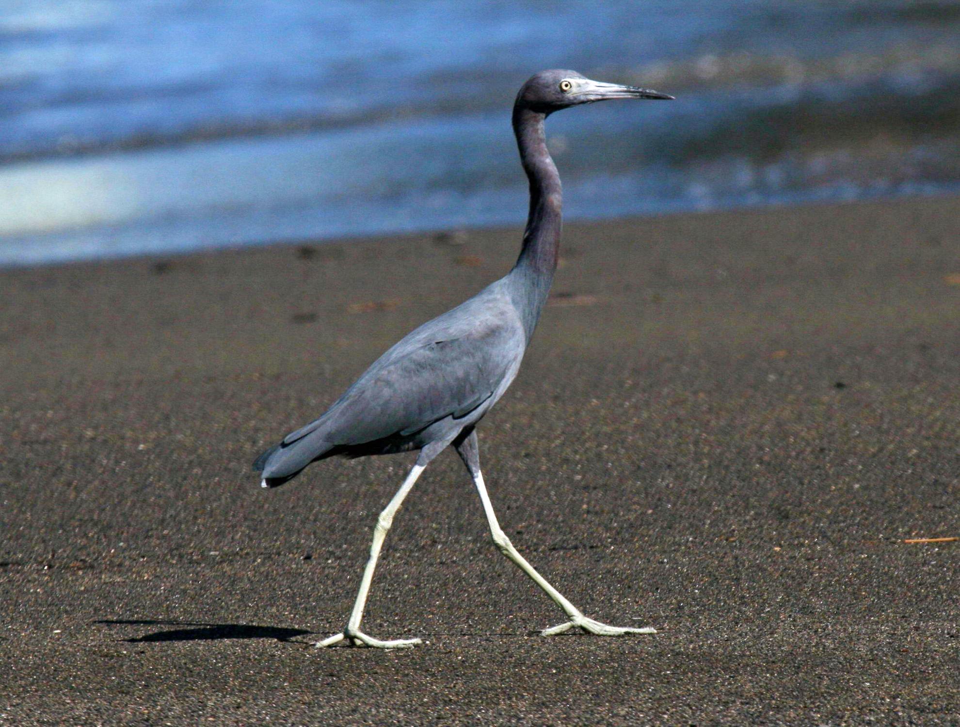 Little Blue Heron (Egretta caerulea) in Puerto Rico